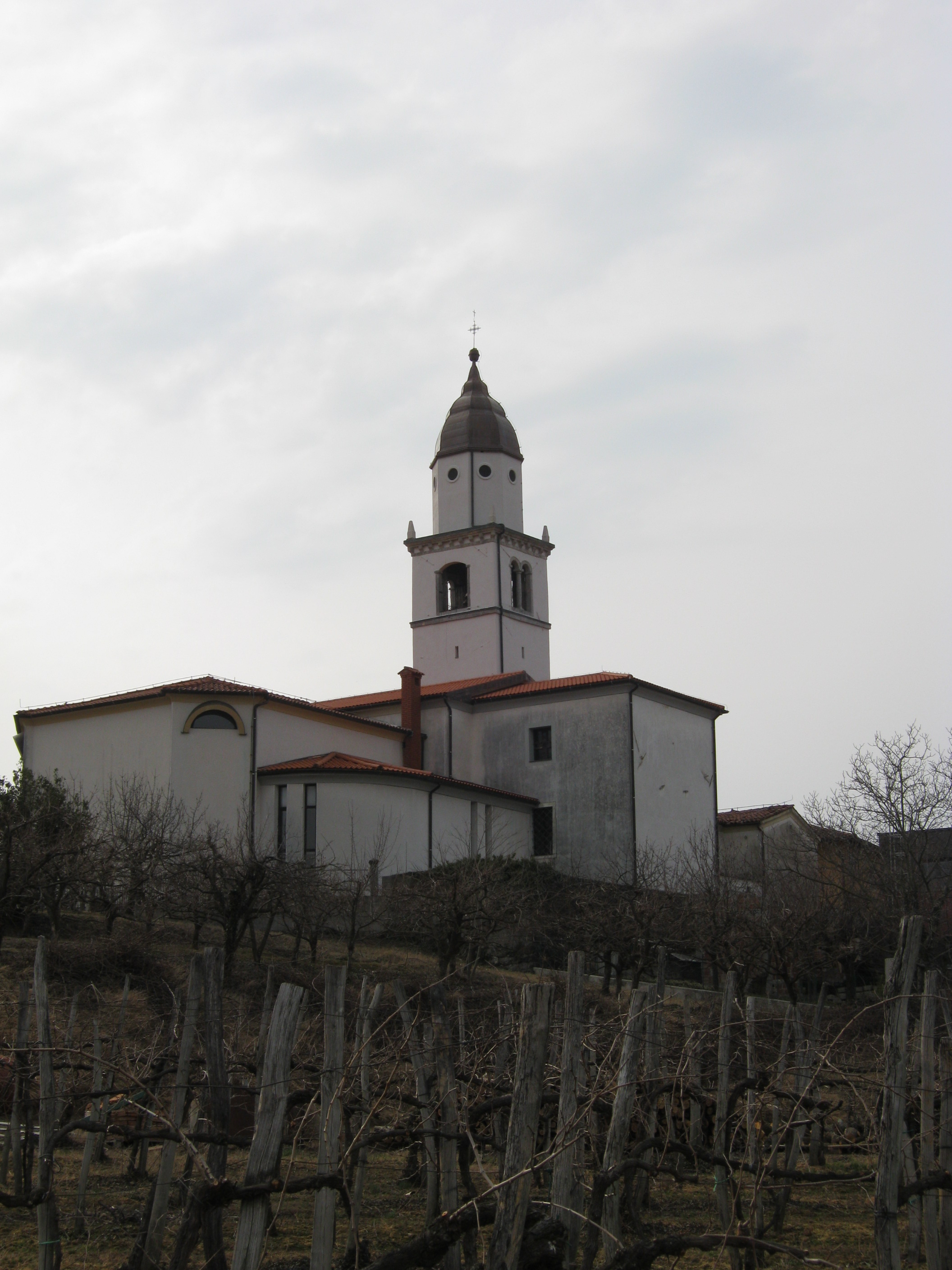 Cerkev Sv. Danijela